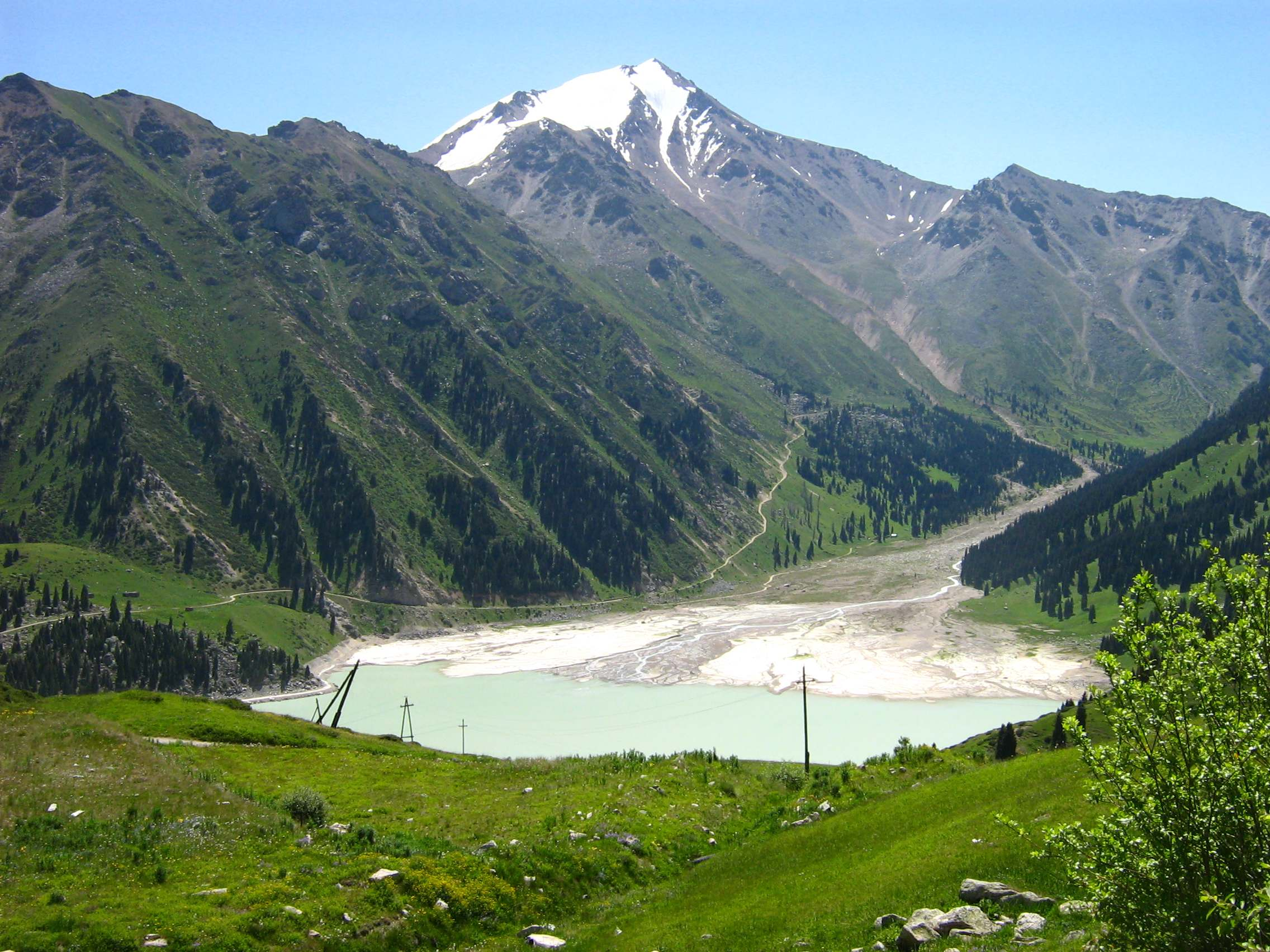 Big Almaty Lake (Bolshaya Almatinka) and Pik Sovetov (4317), ca. 25 km south of Almaty, Kazakhstan.